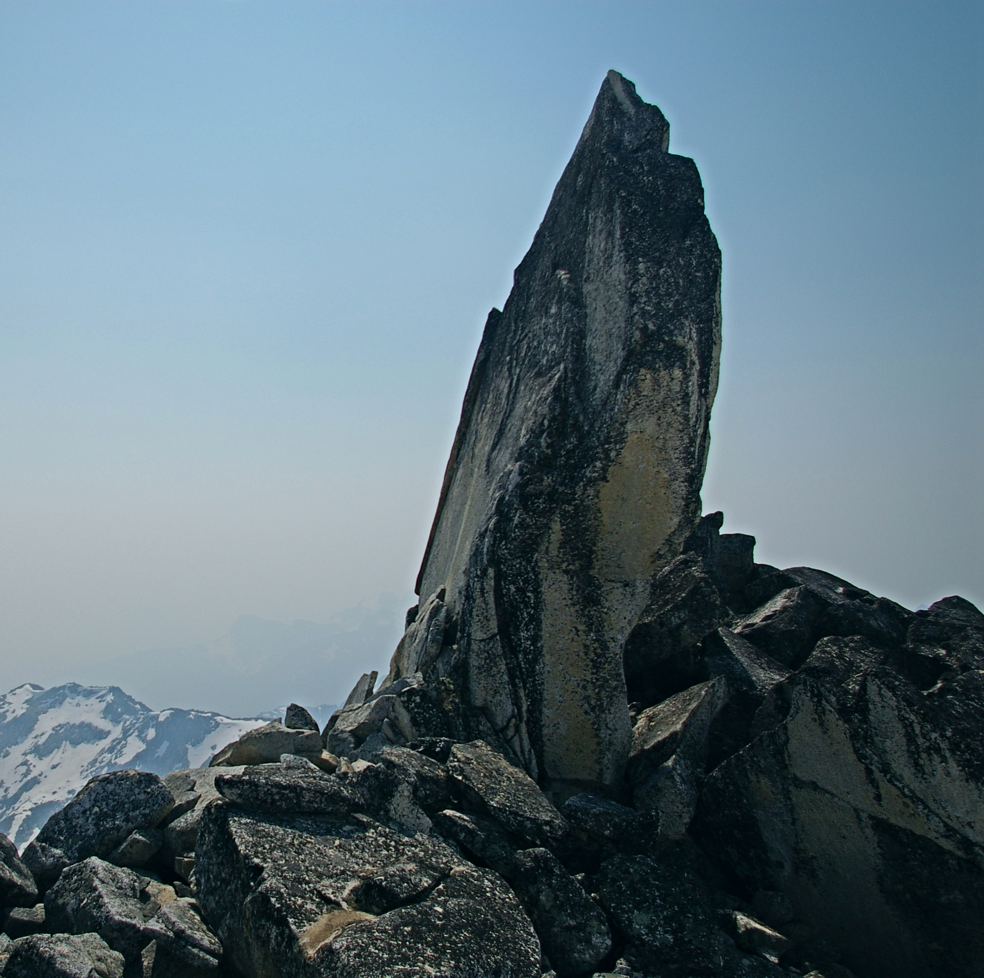 The granite spire that tops the summit of Mount Gandalf